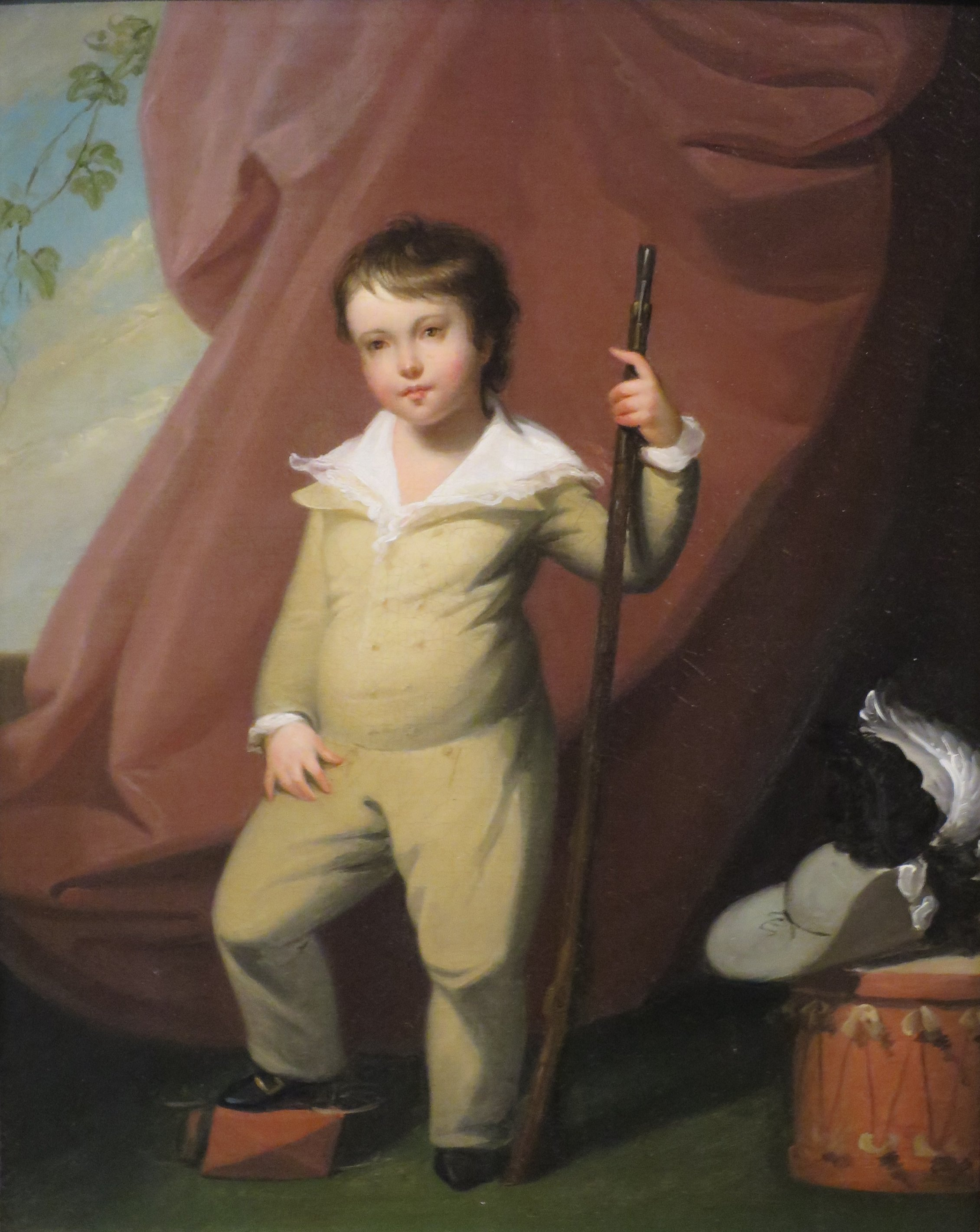 Portrait of Philip Church by John Trumbull, 1784, oil on canvas, De Young Museum